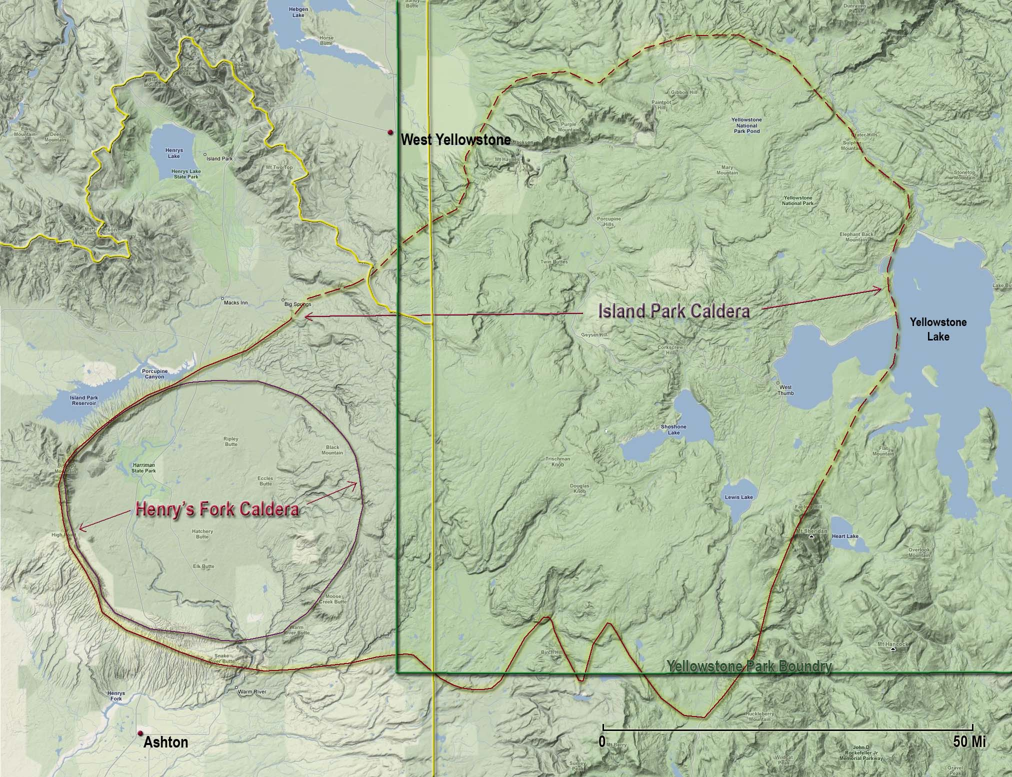 Graphic showing Island Park and the Henry's Fork calders.